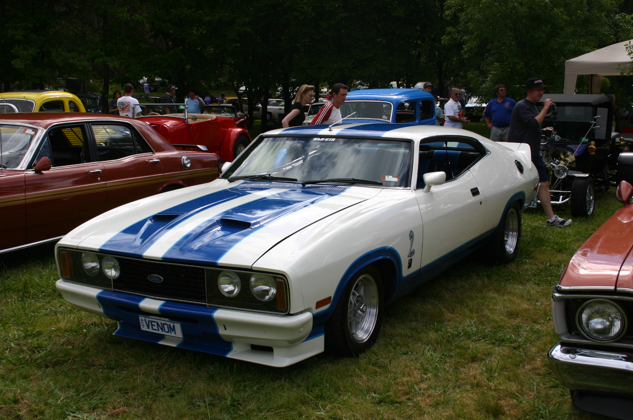 Ford Falcon Cobra 351 V8.